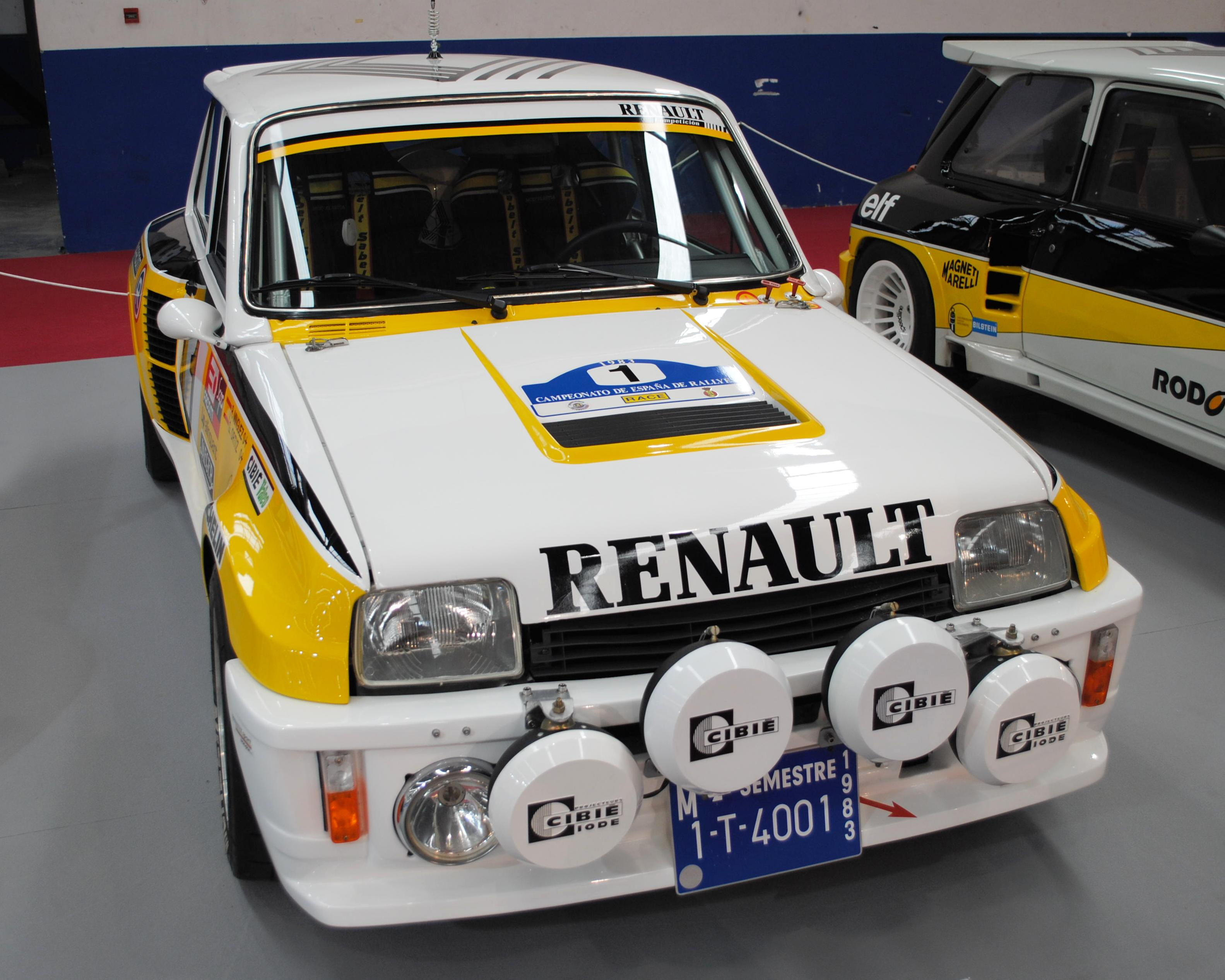 Renault 5 Turbo, 1982, IFEVI, 2014.JPG